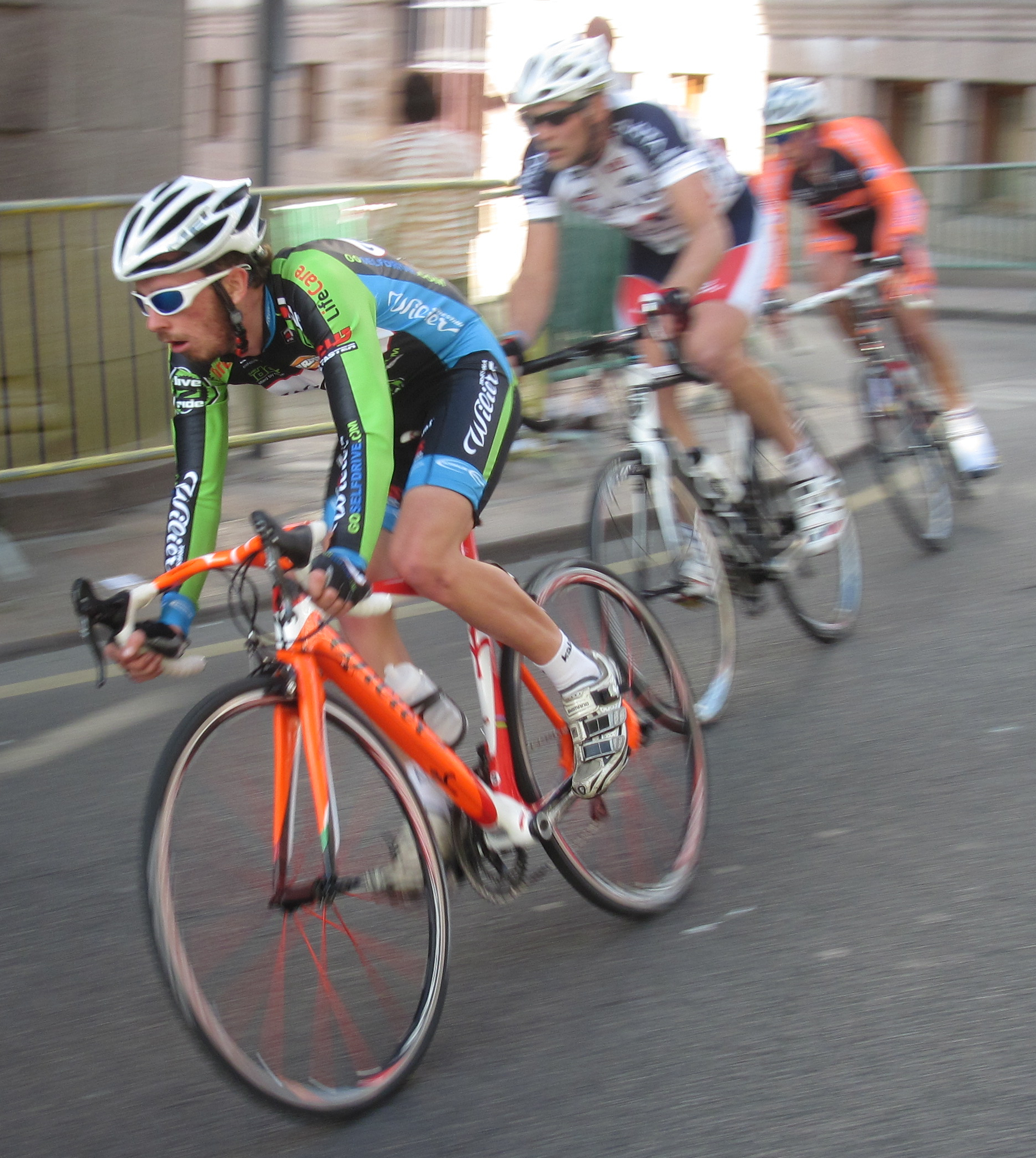 Jersey Town Criterium bicycle races, Saint Helier, Jersey